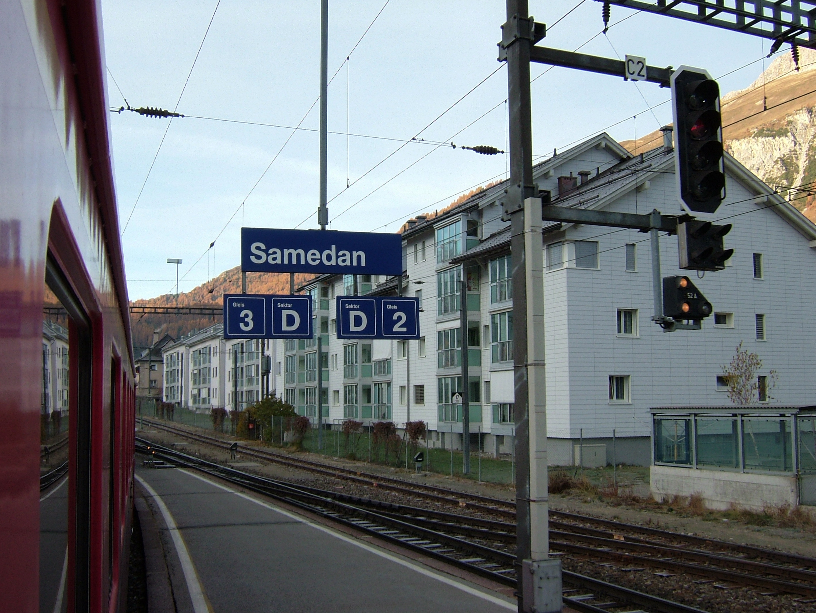 Albula RailwaySamedan train station